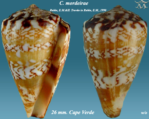 Conus mordeirae 2